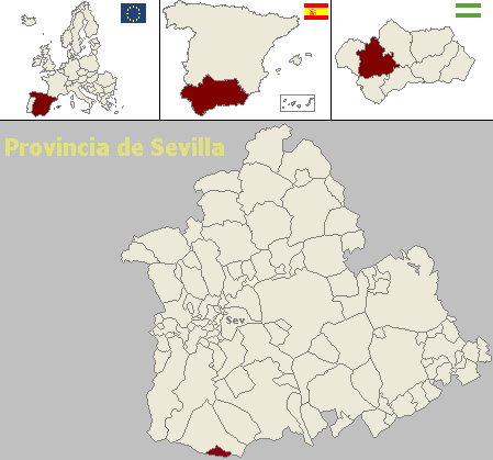 El Cuervo de Sevilla